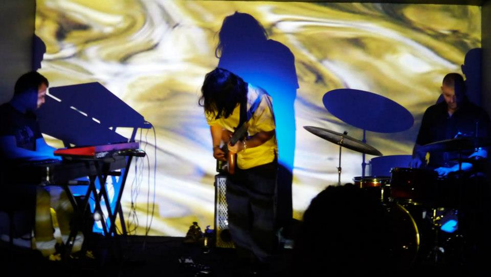 Stomu Takeishi with MOLE -Hernan Hecht at drums, Mark Aanderud at piano